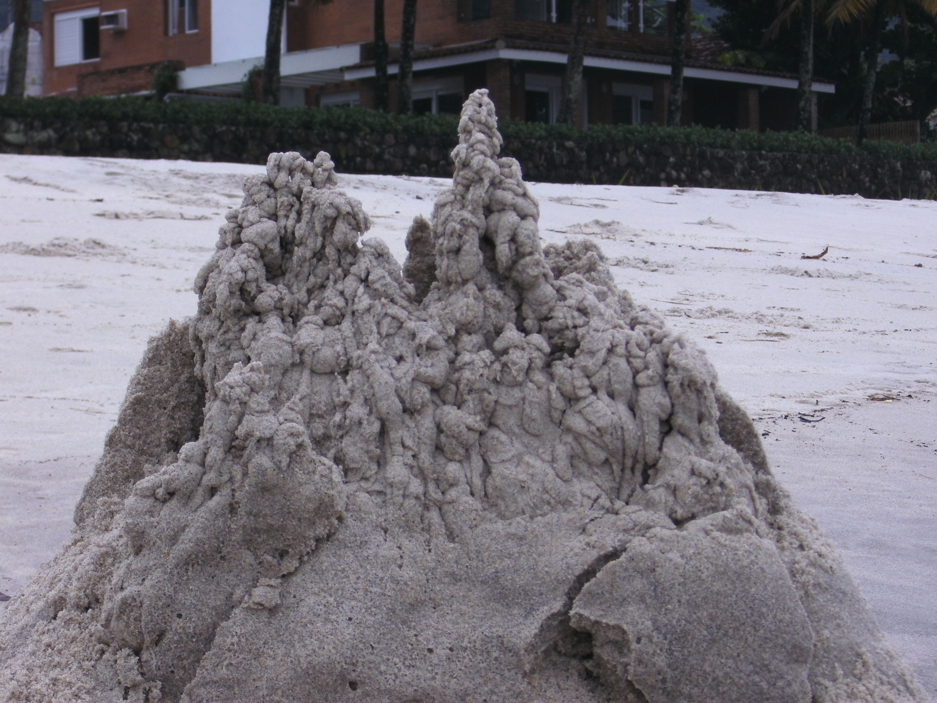 sand castle in Maresias, Brazil.JPG